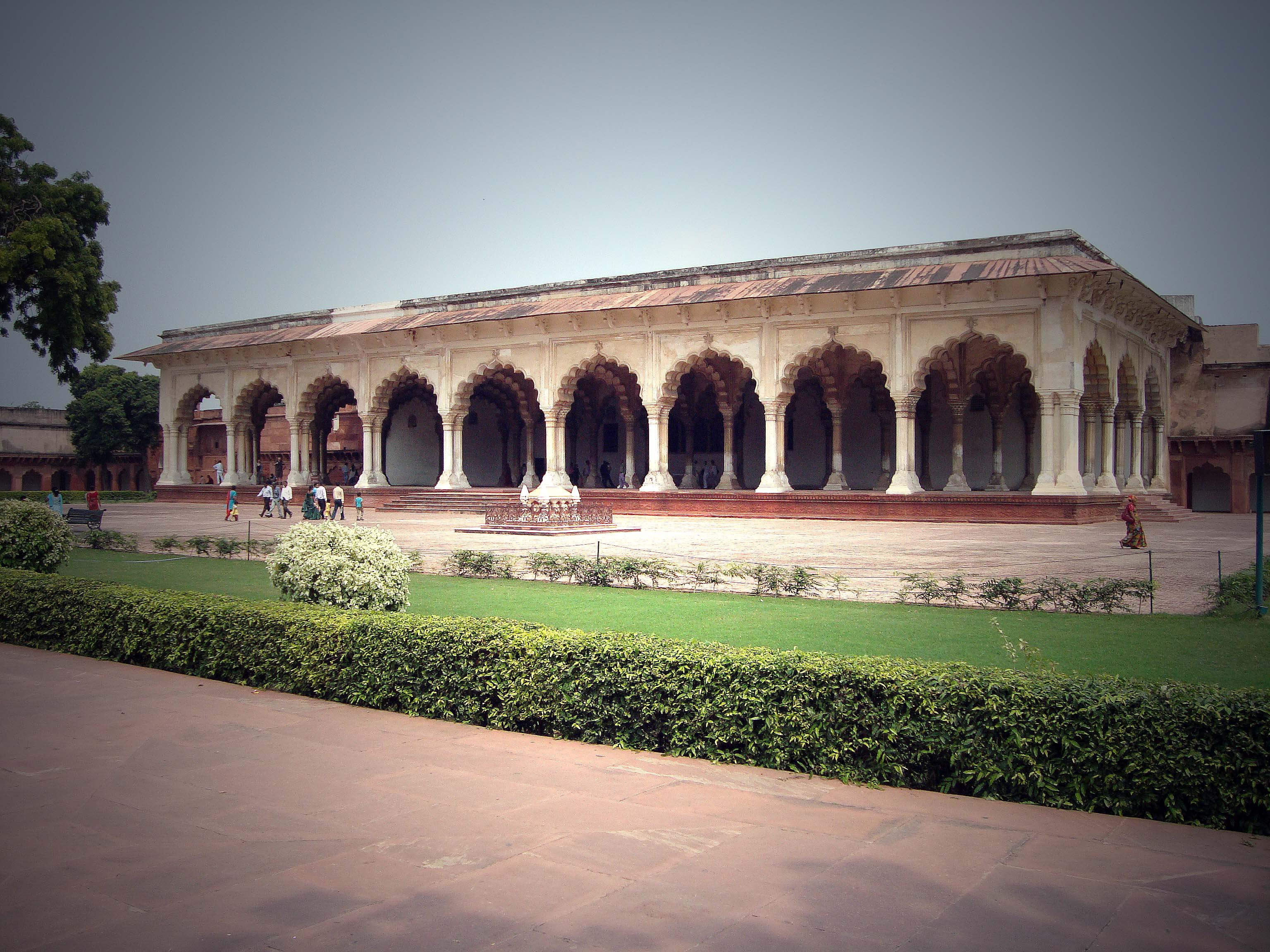 Agra Fort: Diwan-i-Am Quadrangle.